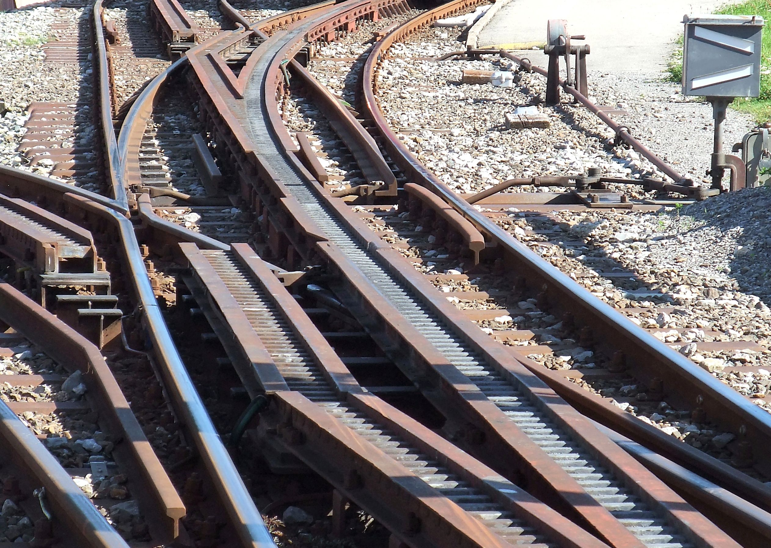 Rails at the entry to the station Heiden. The switches with cogwheel are always like a brainteaser to me. This train runs between Rorschach and Heiden. Switzerland, August 17, 2011.